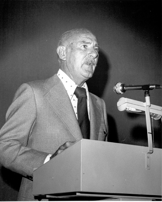 Catalog #: BIOA00112 Last Name: Andrews First Name: J Floyd Notes: Repository: San Diego Air and Space Museum Archive